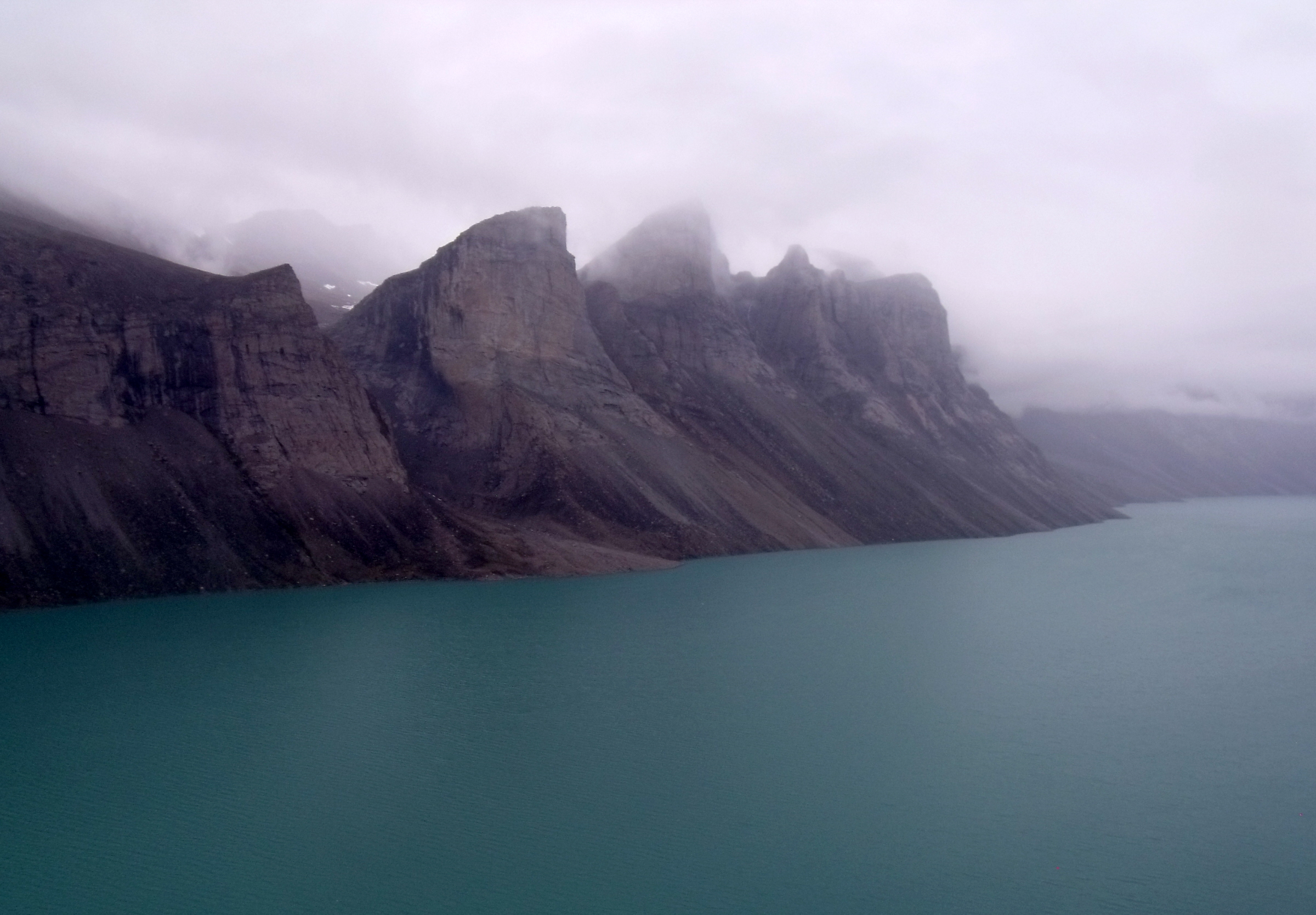 Land-locked freshwater fjord in northern Baffin Island, Nunavut. Taken across Ayr Lake from a helicopter returning through the 'back door' to the hamlet of Clyde River. We were flying along the opposite wall of this spectacular fiord. Now called Tasialuk (formerly Ayr Lake)